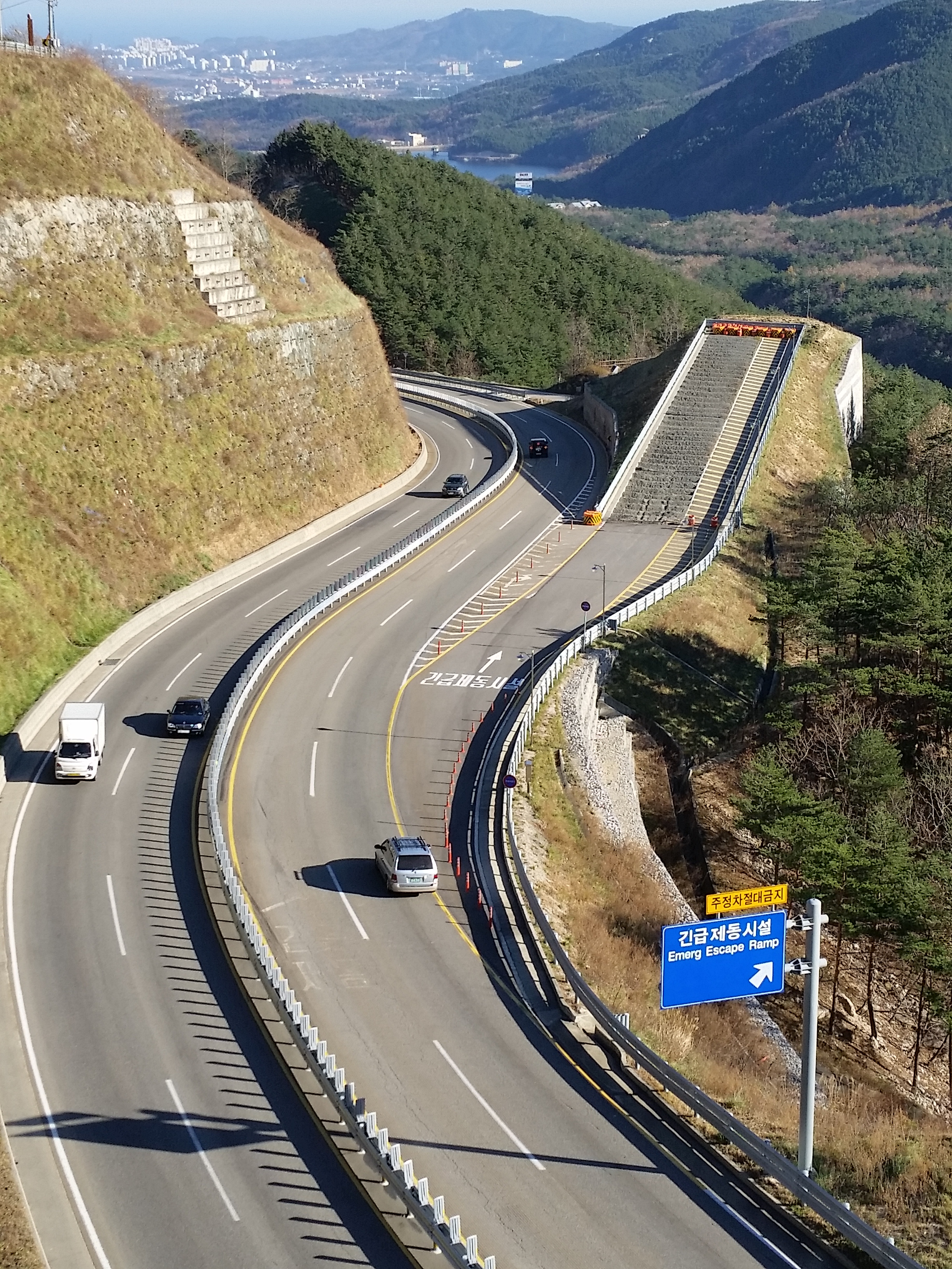 Emergency escape ramp on Misiryeong Penetrating Road, located at the middle of a downhill before Tollgate. It enables vehicles that are having braking problems to safely stop.